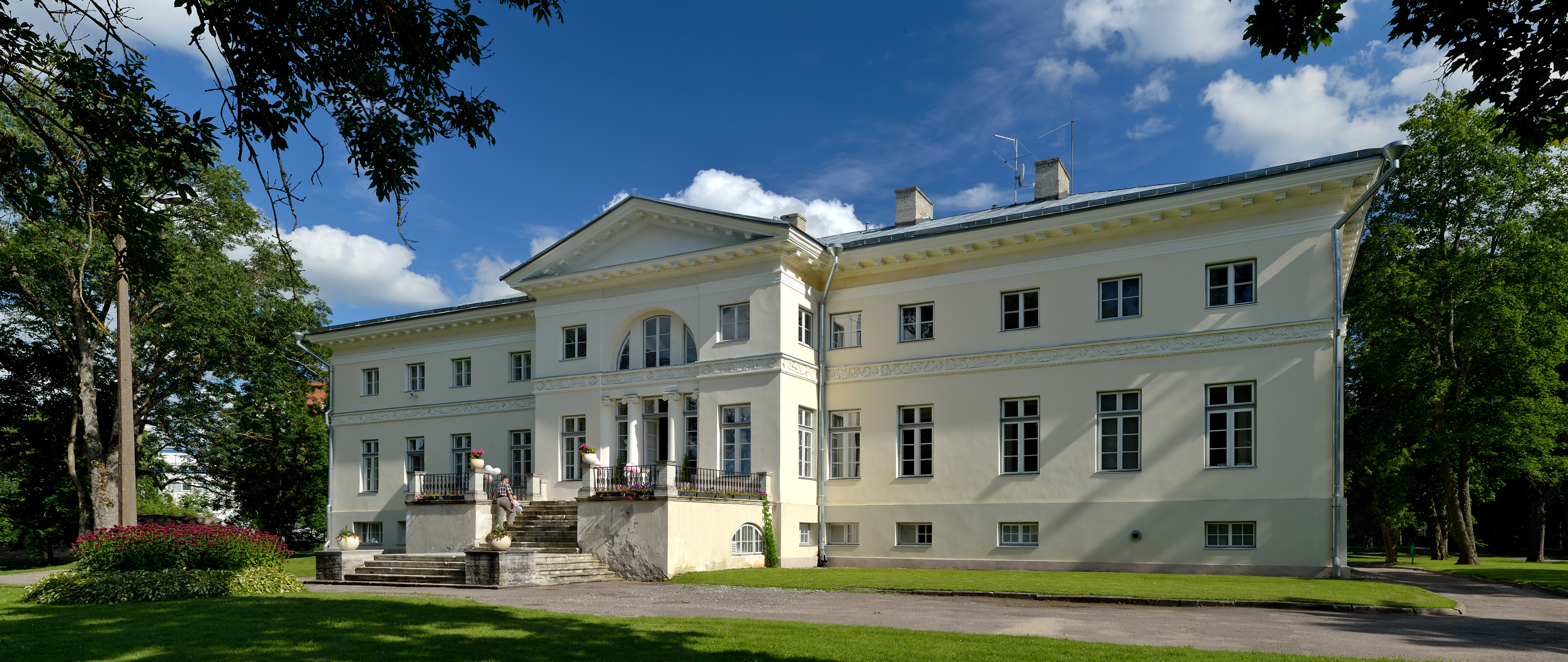 Saku manor main building